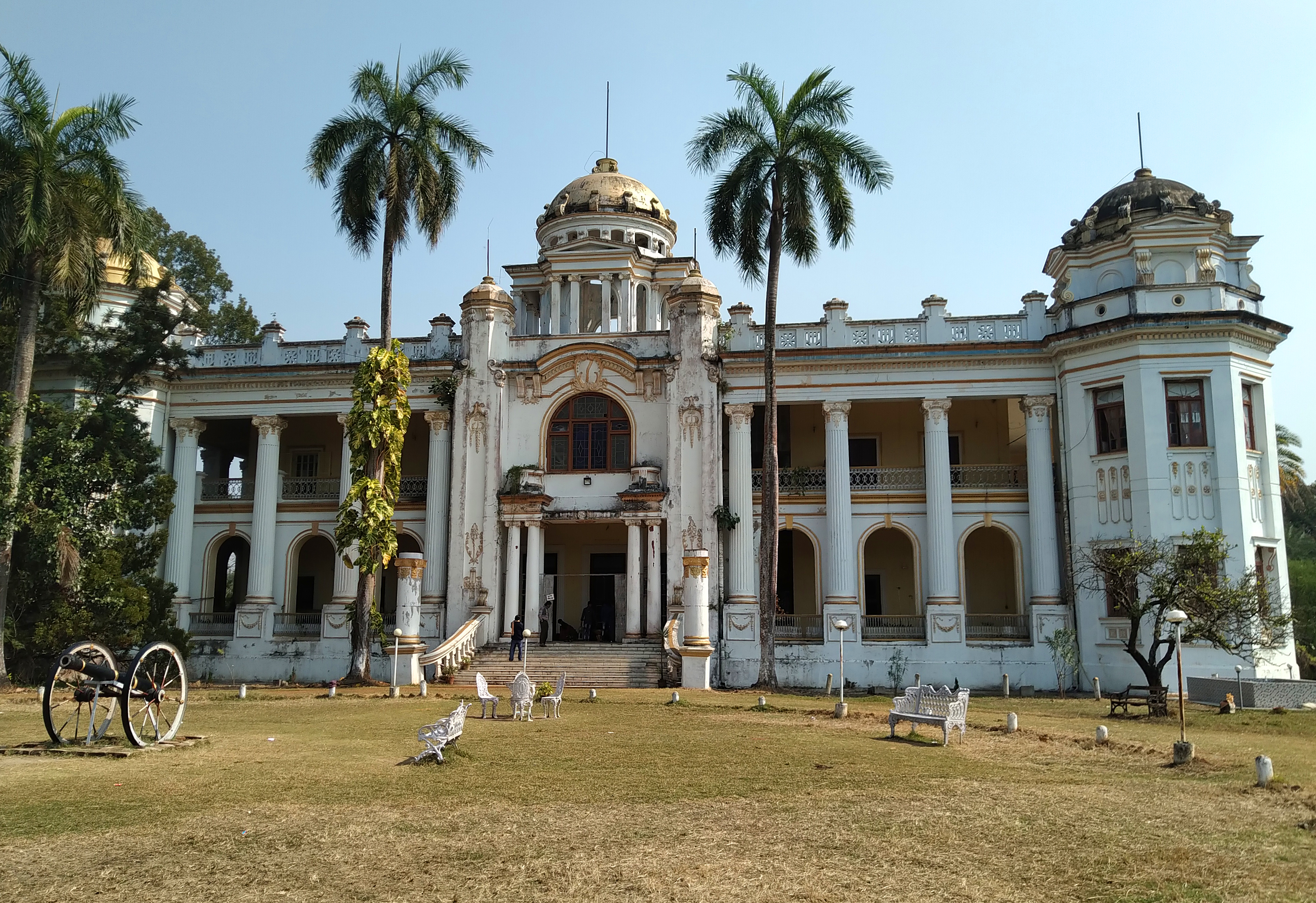 Mahishadal Rajbari at Mahishadal Town under Purba Medinipur district in West Bengal. This is the new building of the Rajbari.